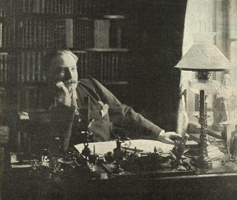 Swedish actor Nils Personne.